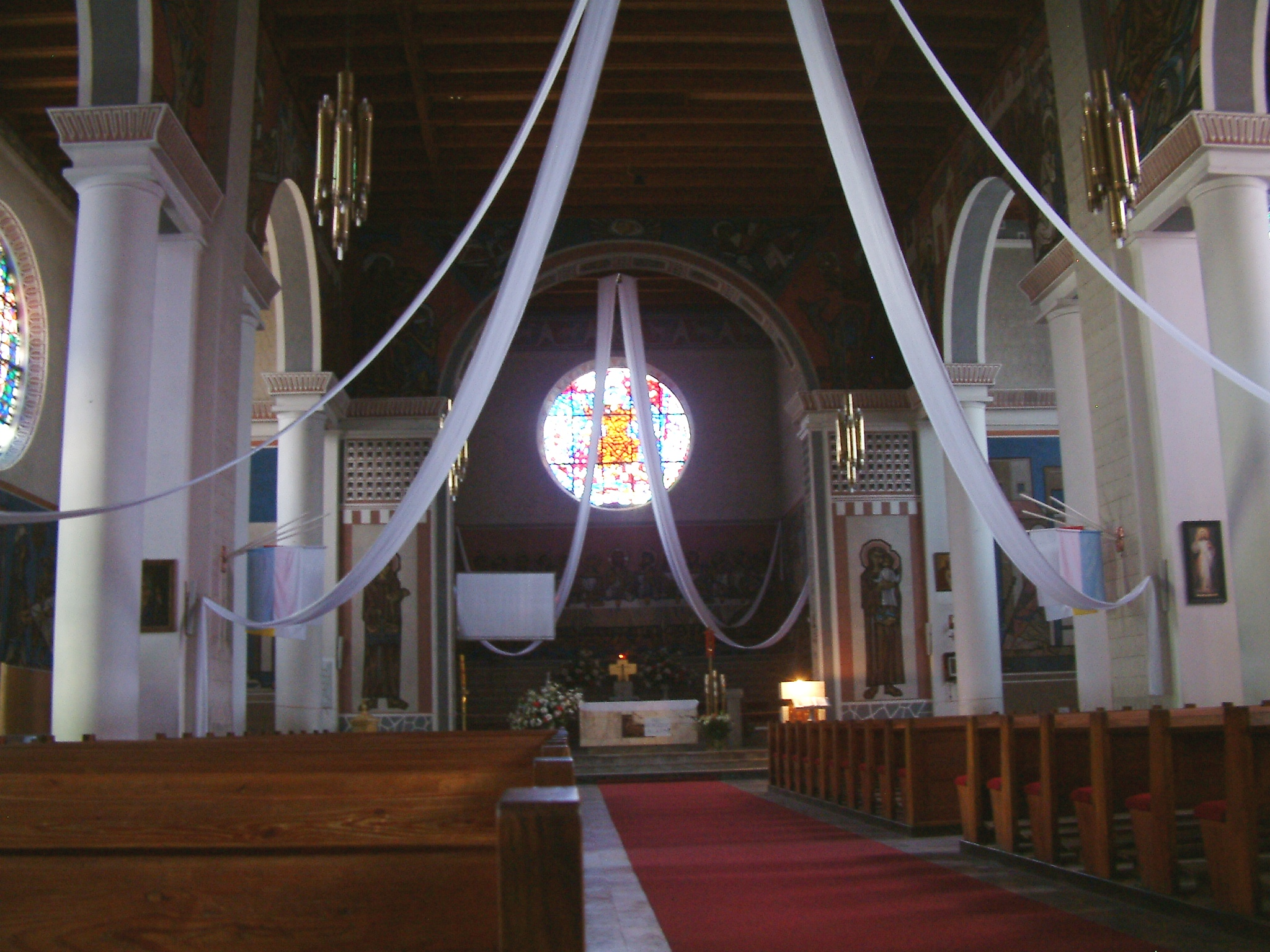 Church of St. Anthony of Padua in Starołęka, Poznań